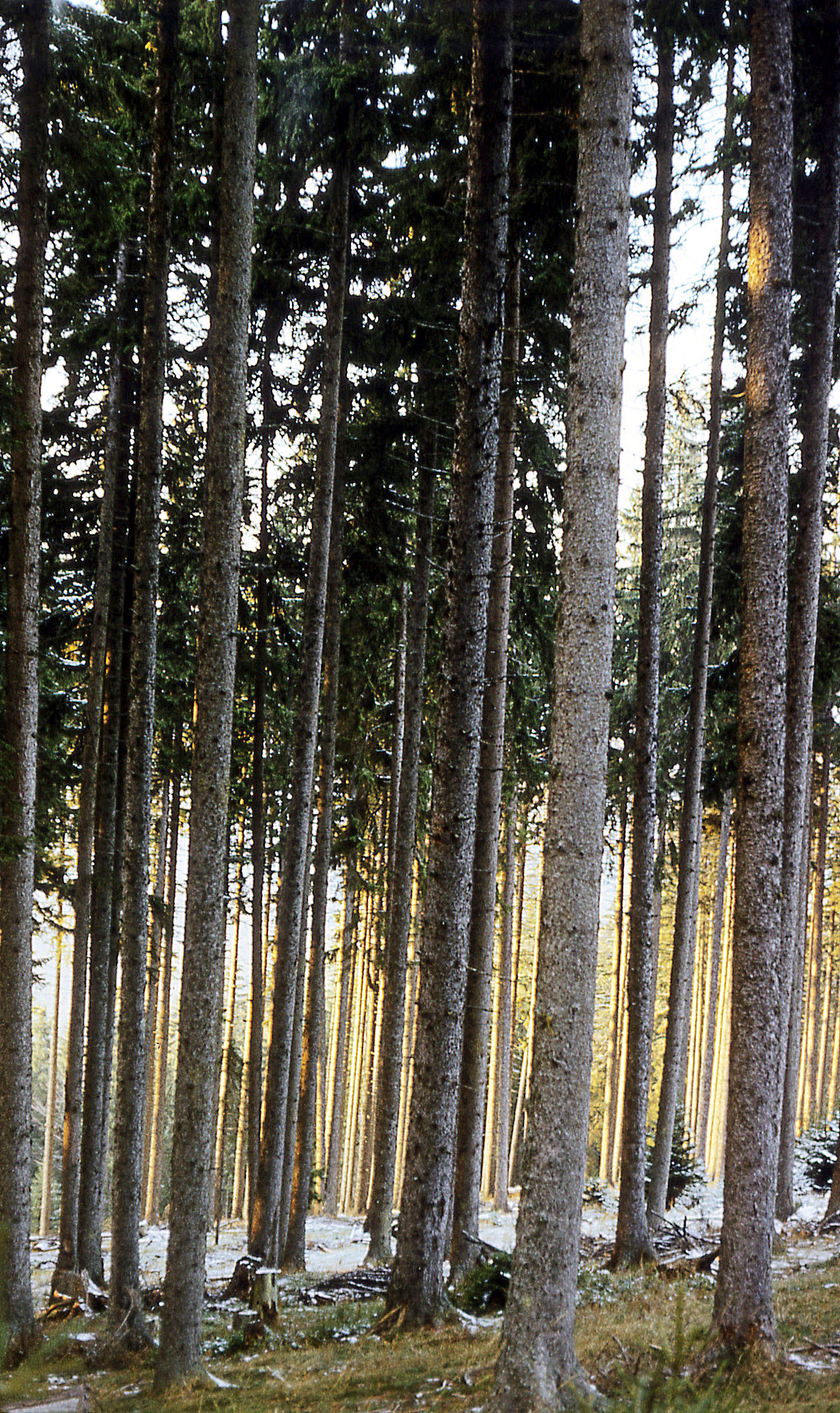 Picea abies forest on Golija Mountain